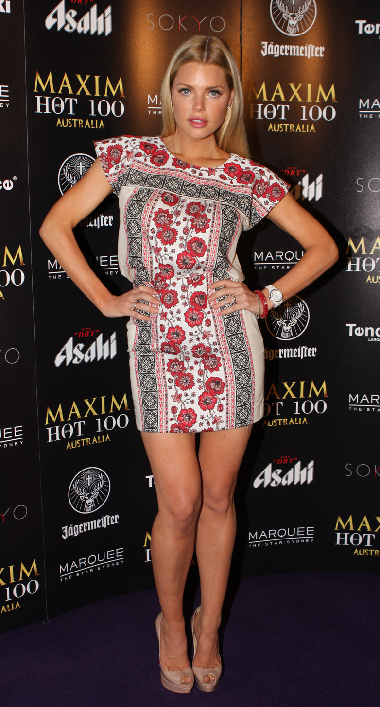 Sophie Monk at the Hot 100 Halloween Bash at Sydney's Marquee nightclub.